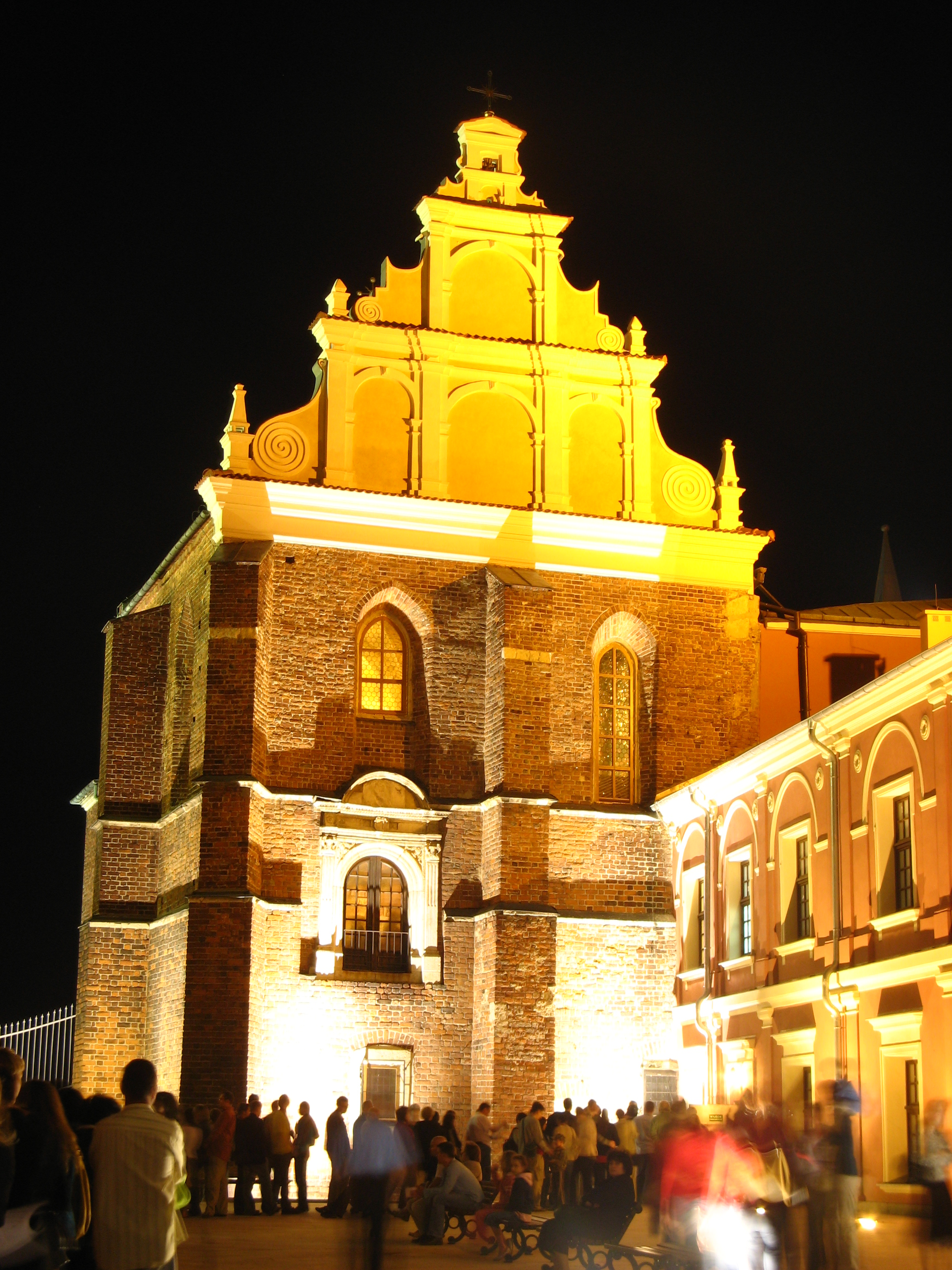 Courtyard of the Lublin Castle — Holy Trinity Chapel.